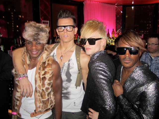 Nathan Lee Graham (far left) with fellow Priscilla Queen of the Desert castmate, Kyle Brown, and AC and LT- THE KIKI TWINS attending the Michael Musto 25th Anniversary Party May 2, 2010 and 230 Fifth in NYC.